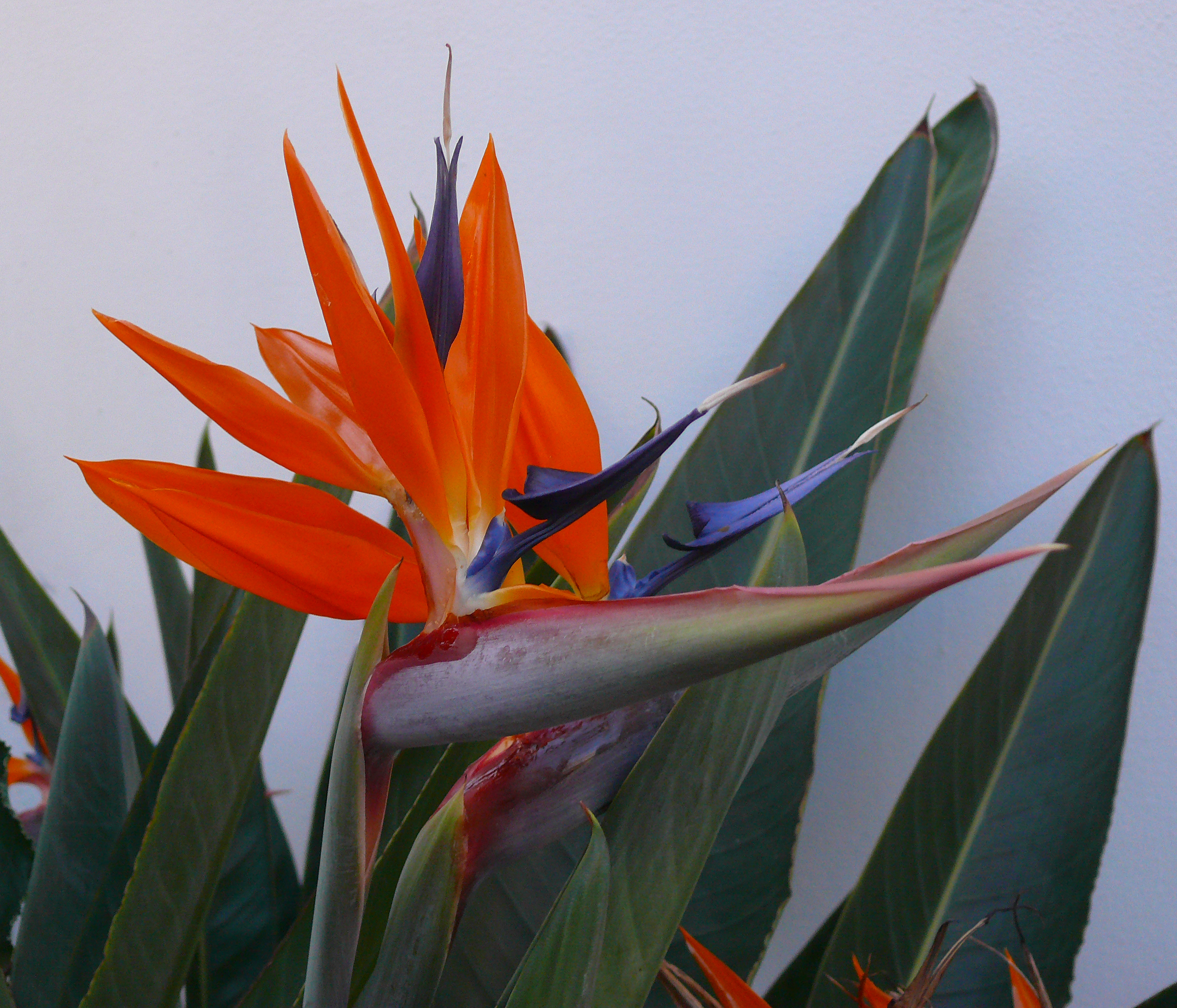 Strelitzia reginae